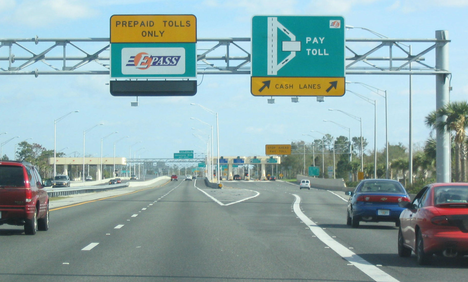 Northbound at the University Toll Plaza on Florida State Road 417, recently rebuilt with high-speed lanes.